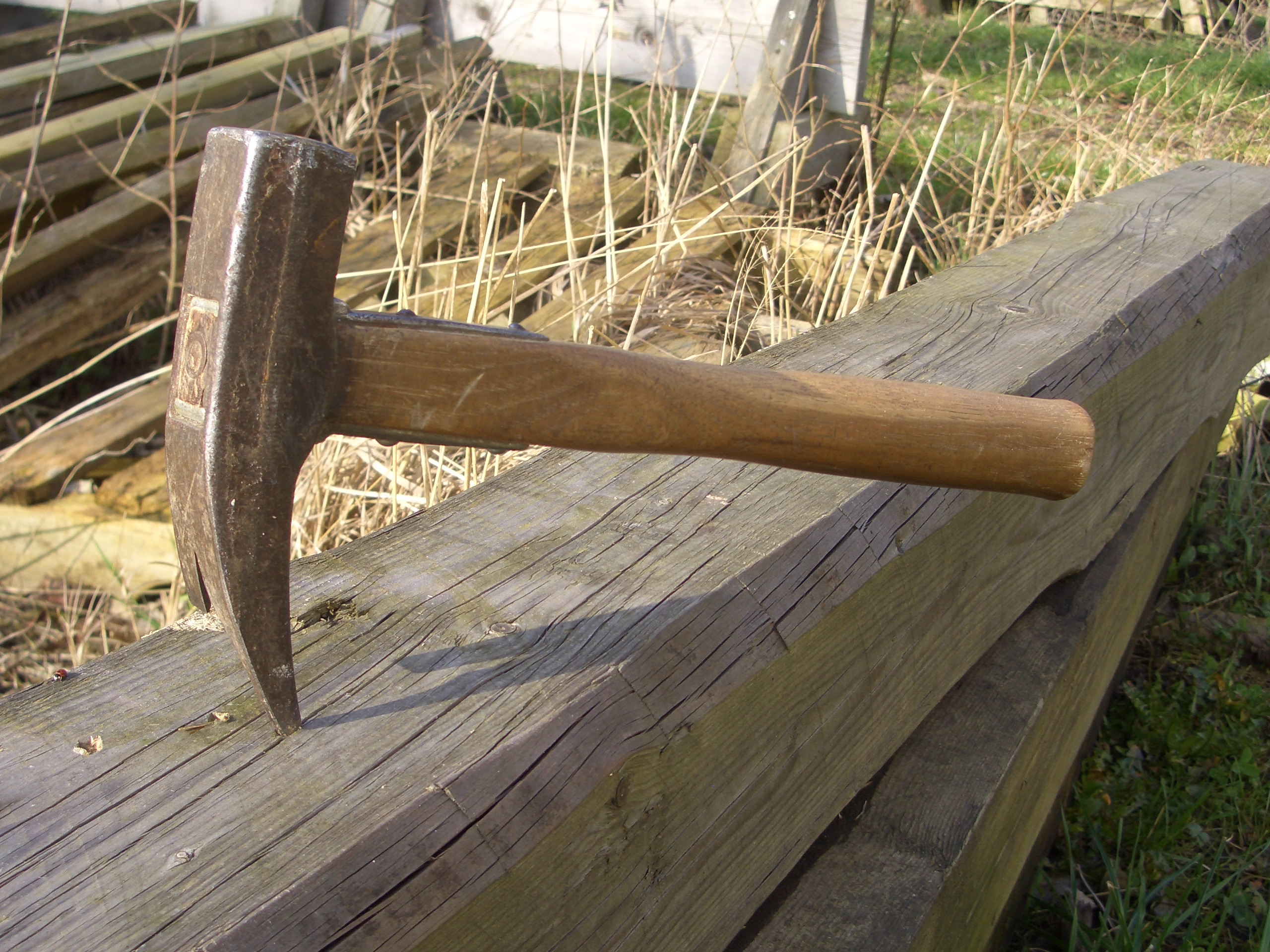 Latthammer with wooden handle